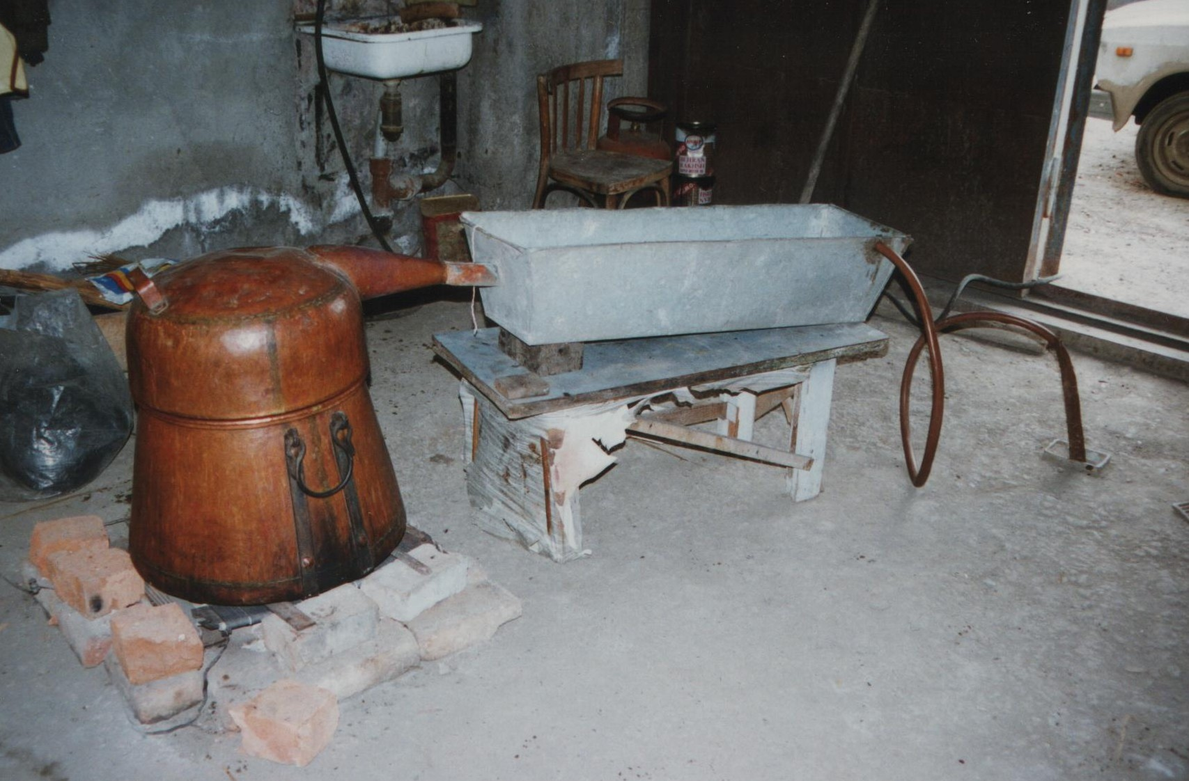 Vazha always made his own ch'ach'a (Georgian grappa). I got a chance to help.